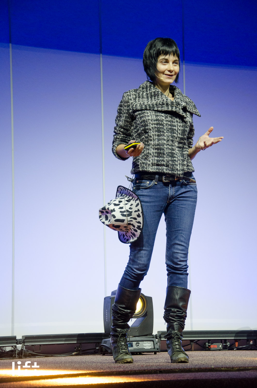 Blockchain Session Main Stage Primavera De Filippi